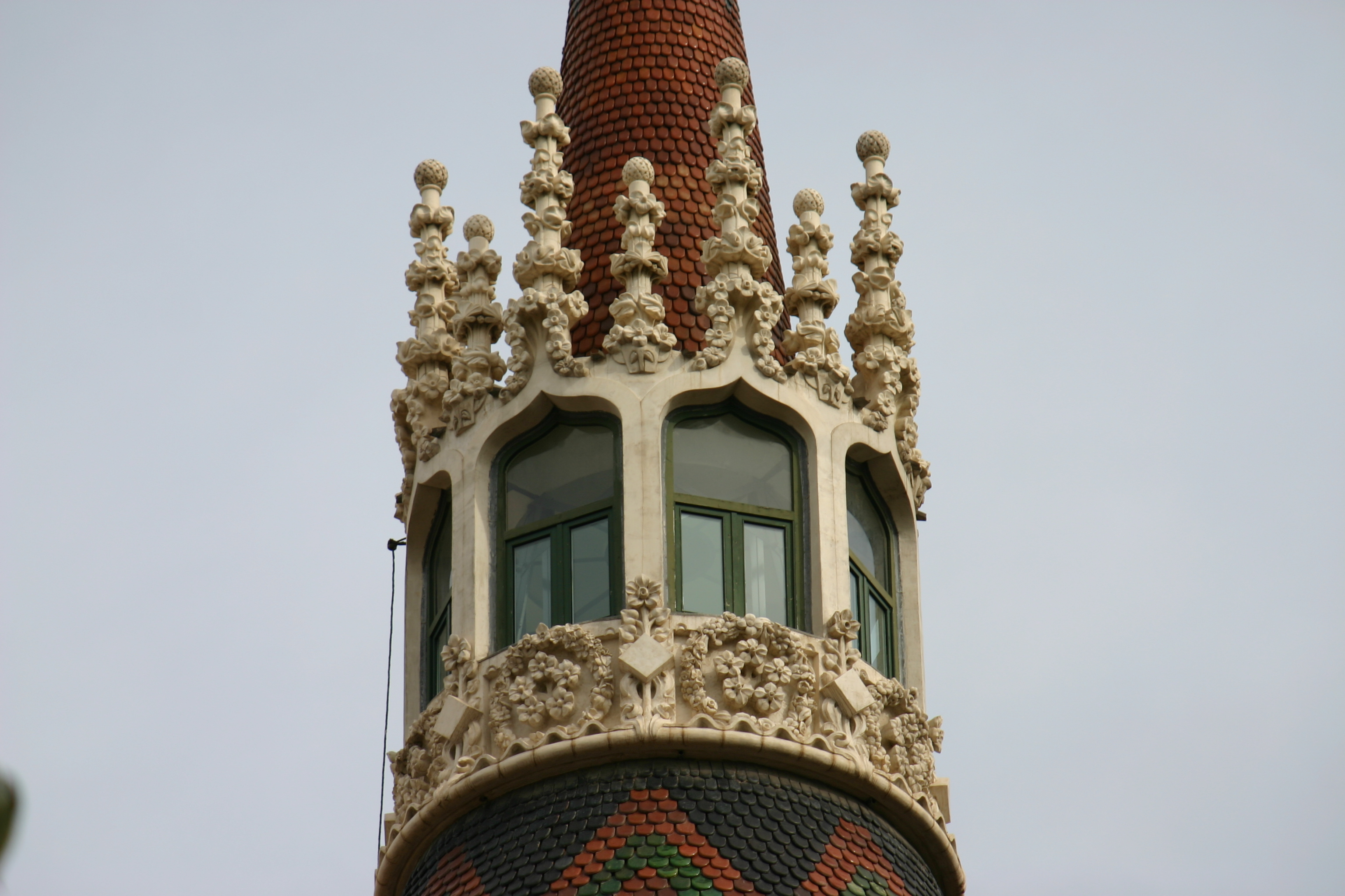 Casa de les Punxes by architect Josep Puig i Cadafalch, Barcelona